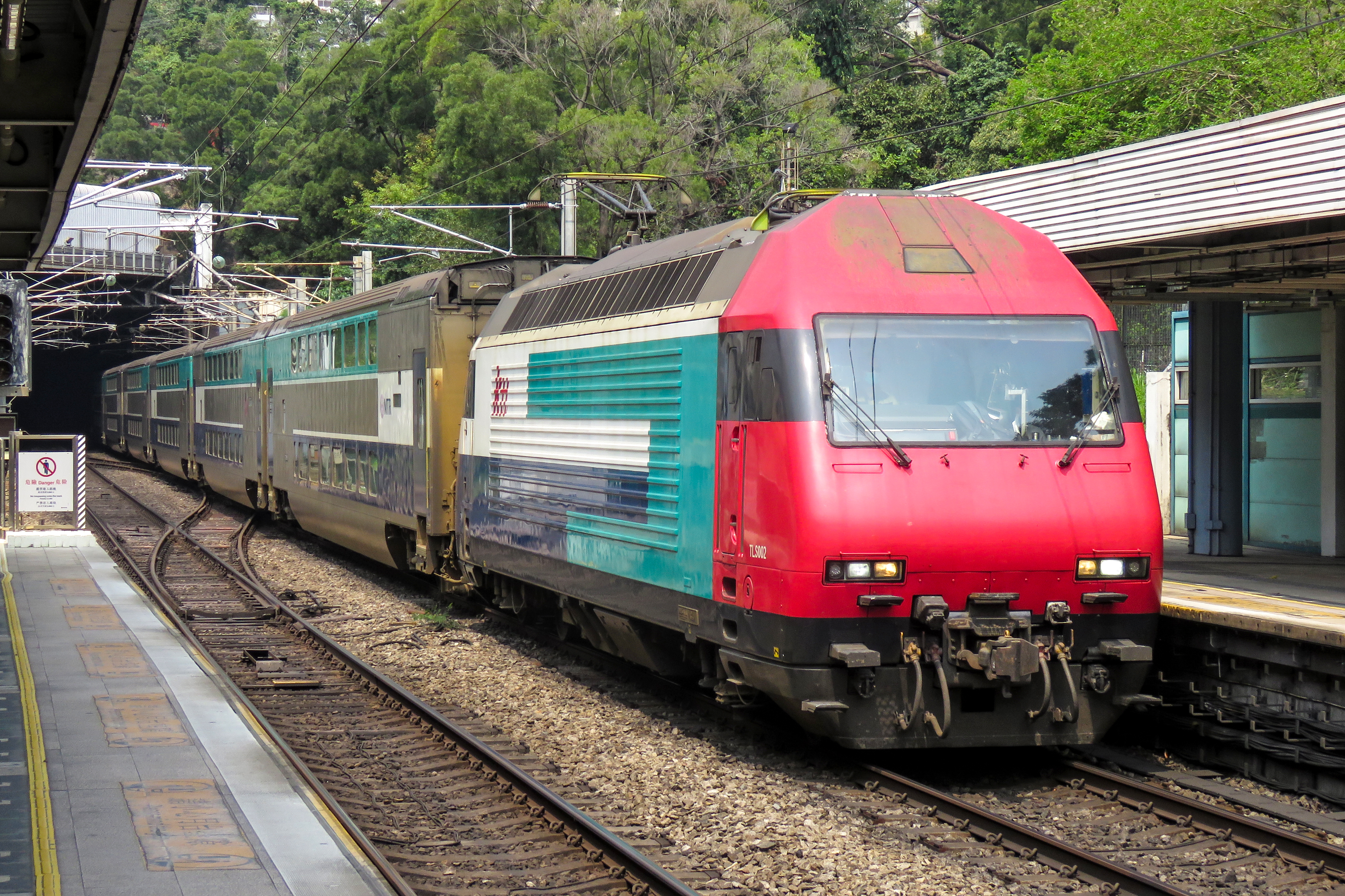 Z823 from Guangzhou East to Hung Hom, scheduled to arrive at 12:33. My target is Z97...